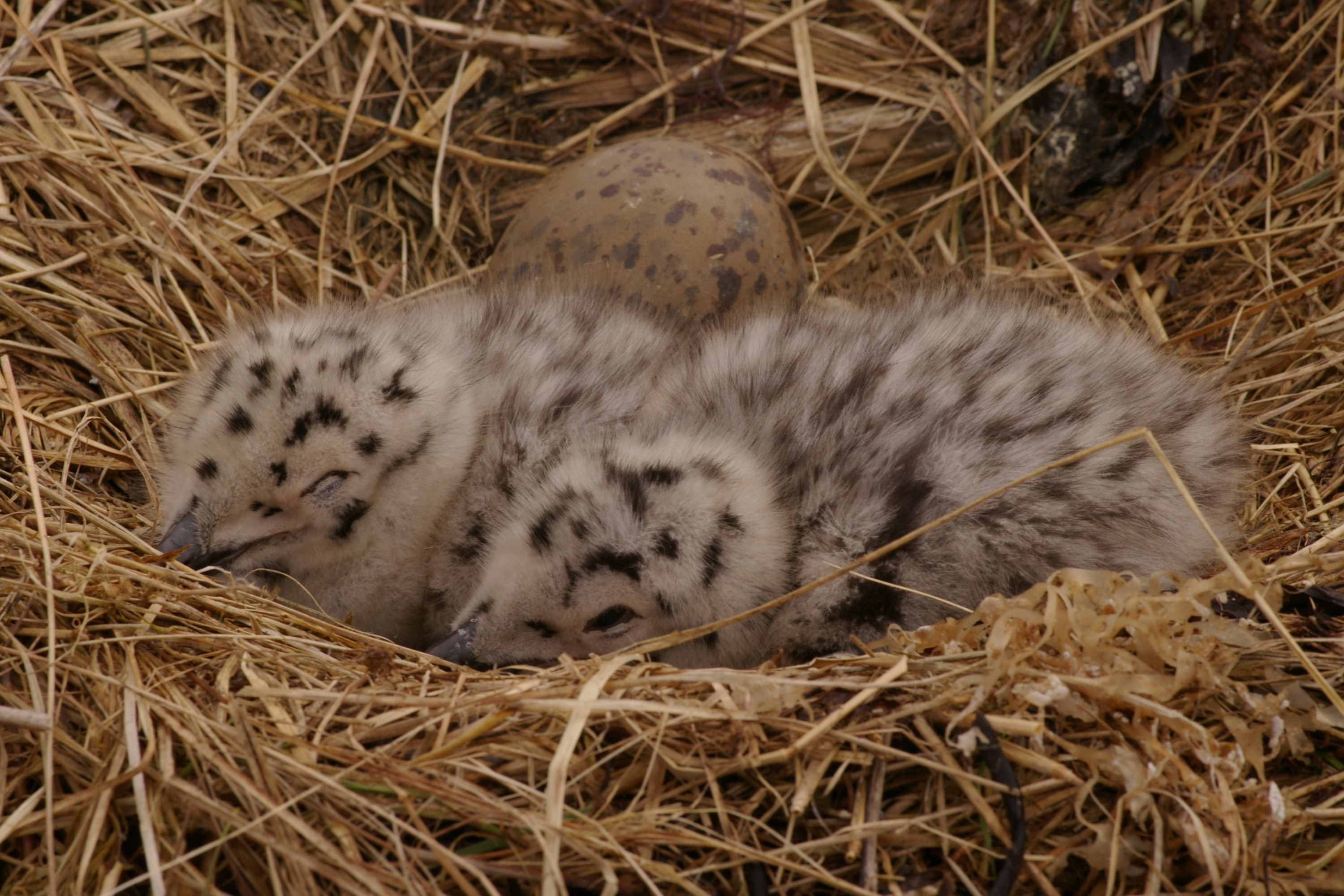 Two hatchlings of Larus marinus in nest.